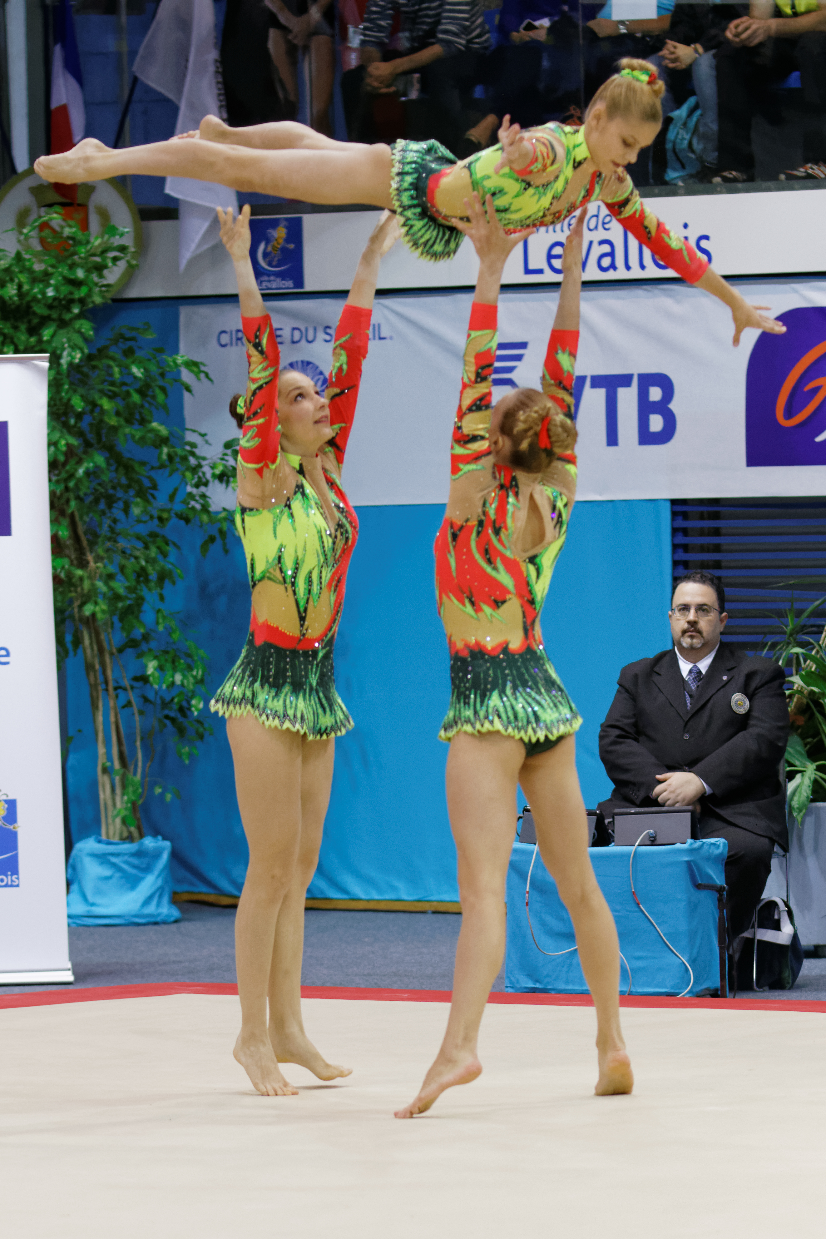 2014 Acrobatic Gymnastics World Championships, 10th-12 July, Levallois-Perret, France. Qualifications: women's group. Belarus 2.